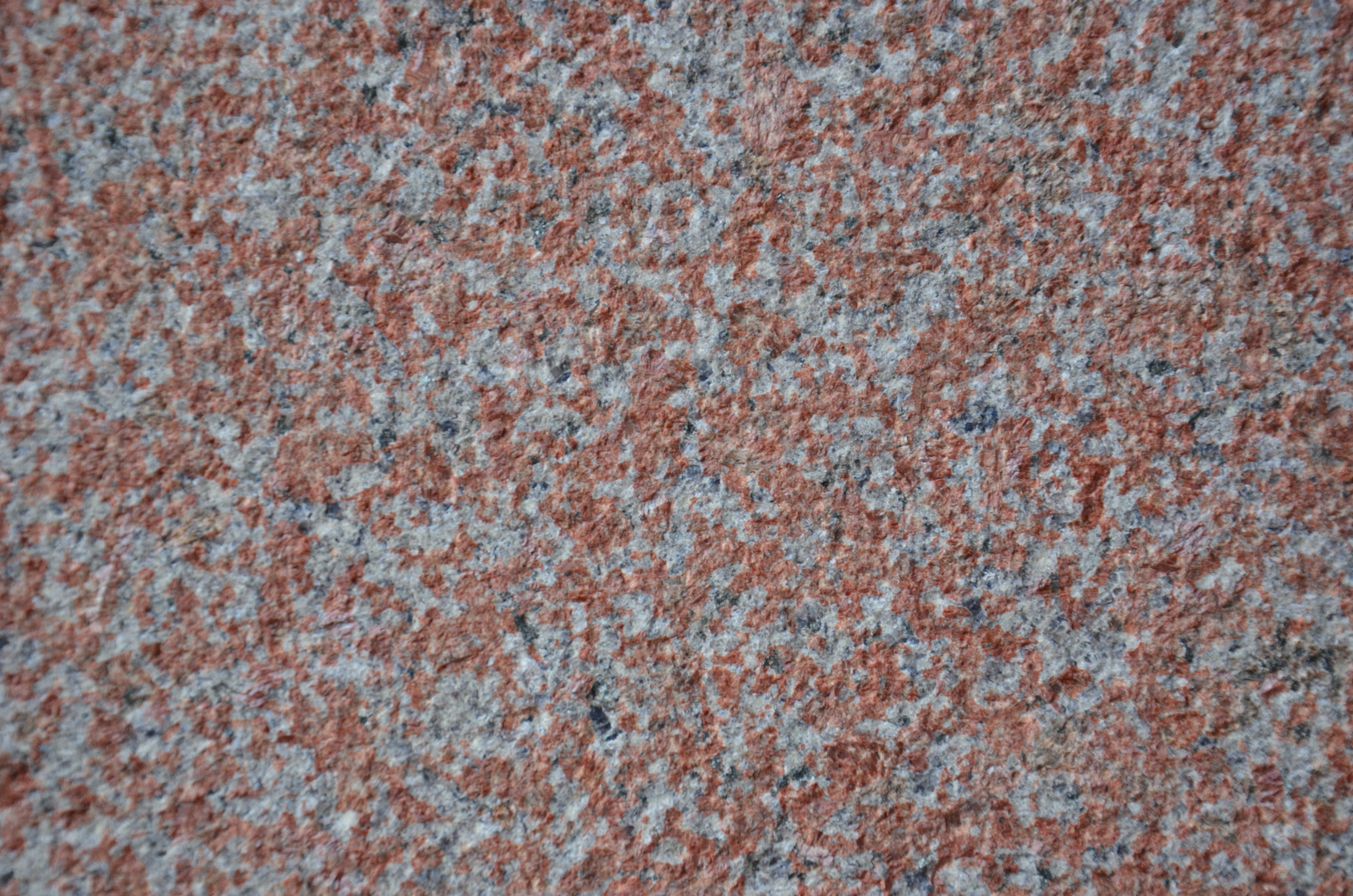 Vätögranit på sockeln till Theodor Lundbergs Kristina Gyllenstierna på yttre borggården på Stockholms slott